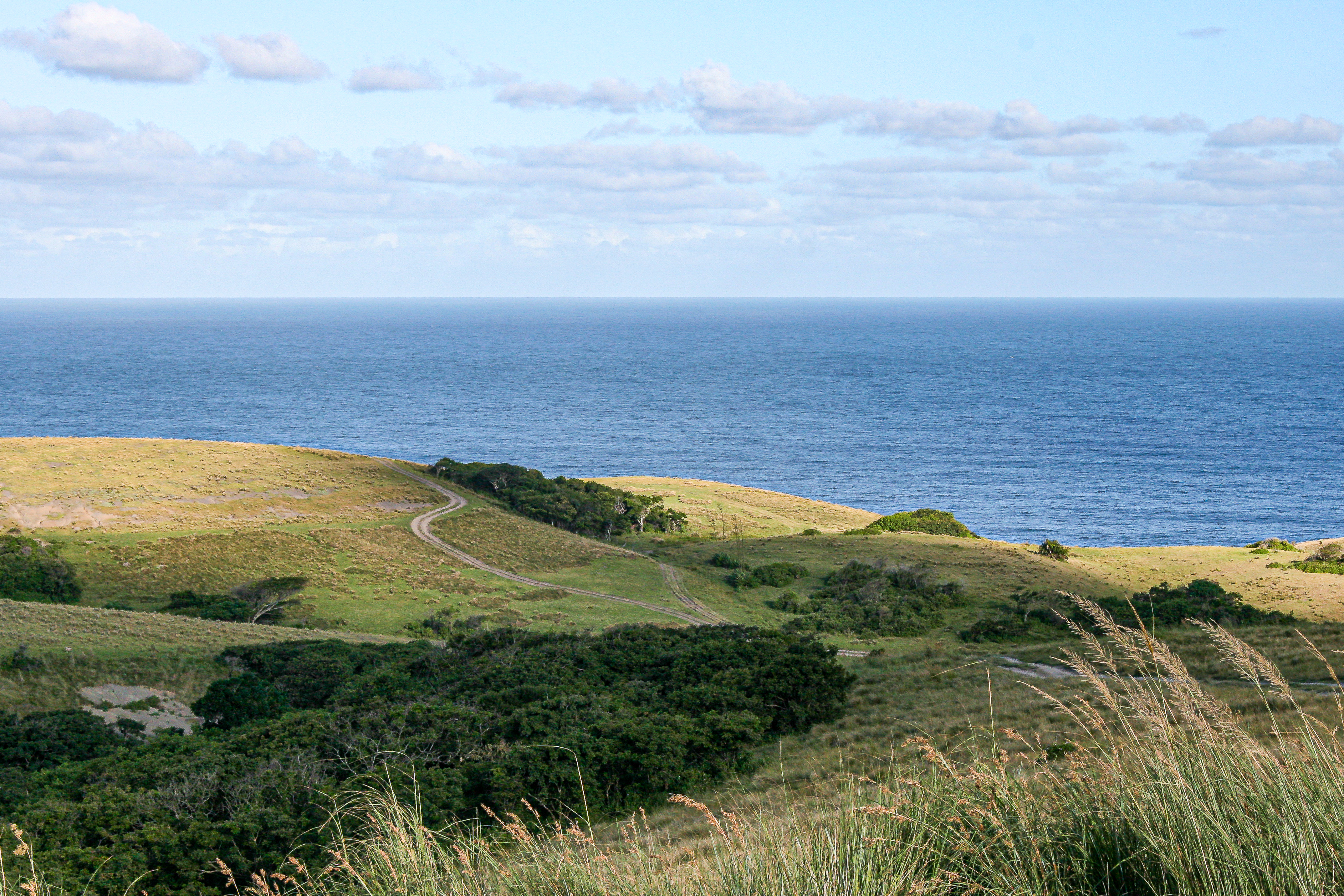 This is an image with the theme "Africa on the Move or Transport" from: South Africa